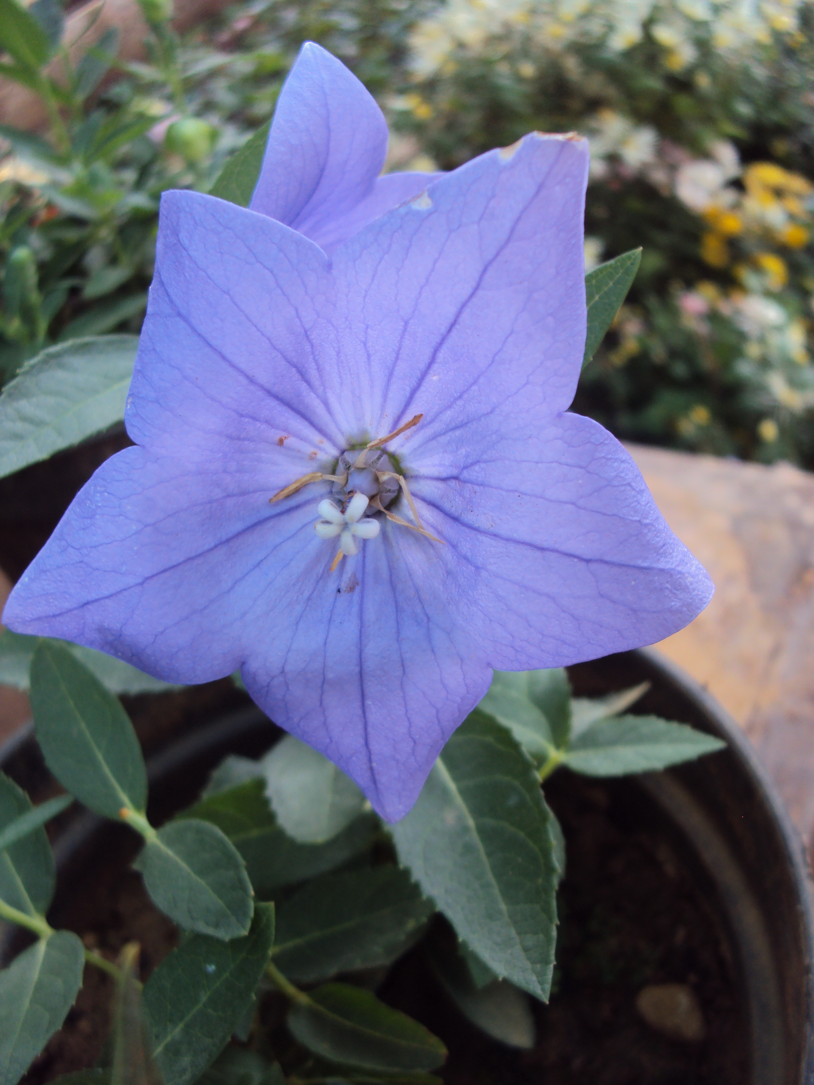 Flowers - Uncategorised Garden plants